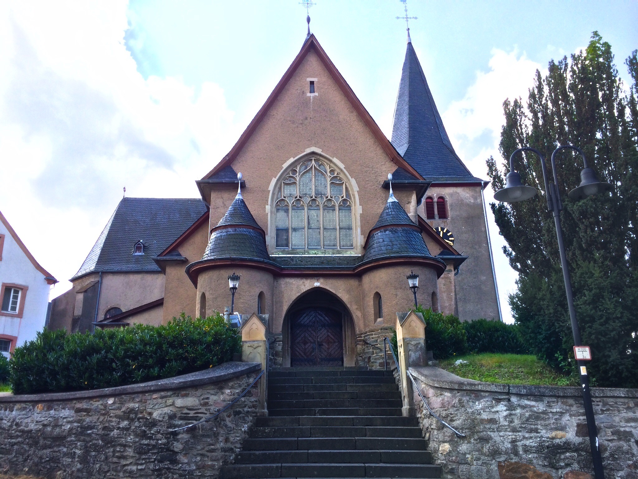 Pfarrkirche Maria Geburt